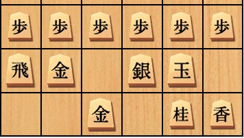 A screenshot of MacShogi depicting the Mino-Gakoi castle.